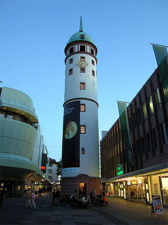 white tower in Darmstadt